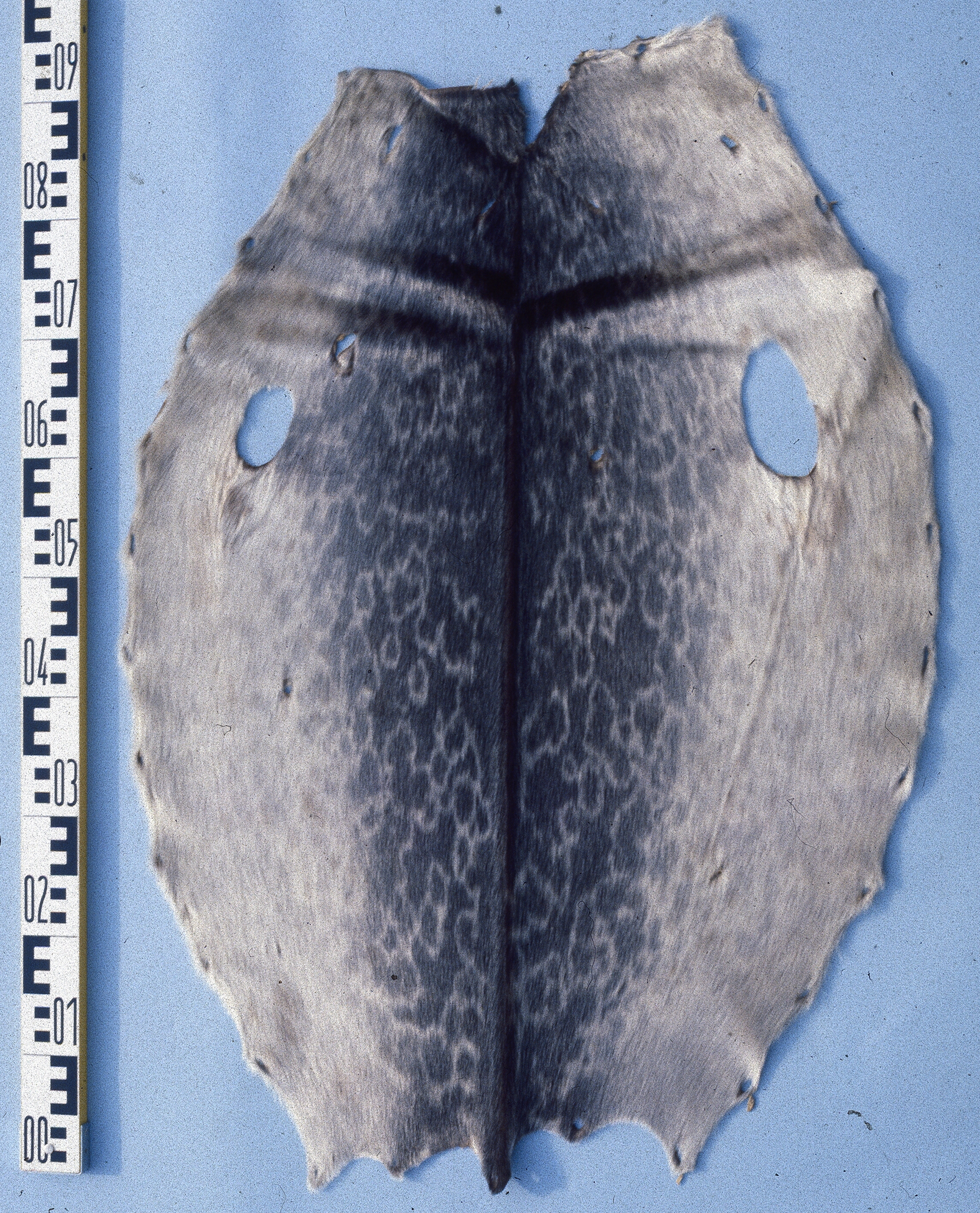 Ringed seal fur skin (Phoca (pusa) hispida), 'Ring-Seal' . Fur skin collection, Bundes-Pelzfachschule, Frankfurt/Main, Germany.